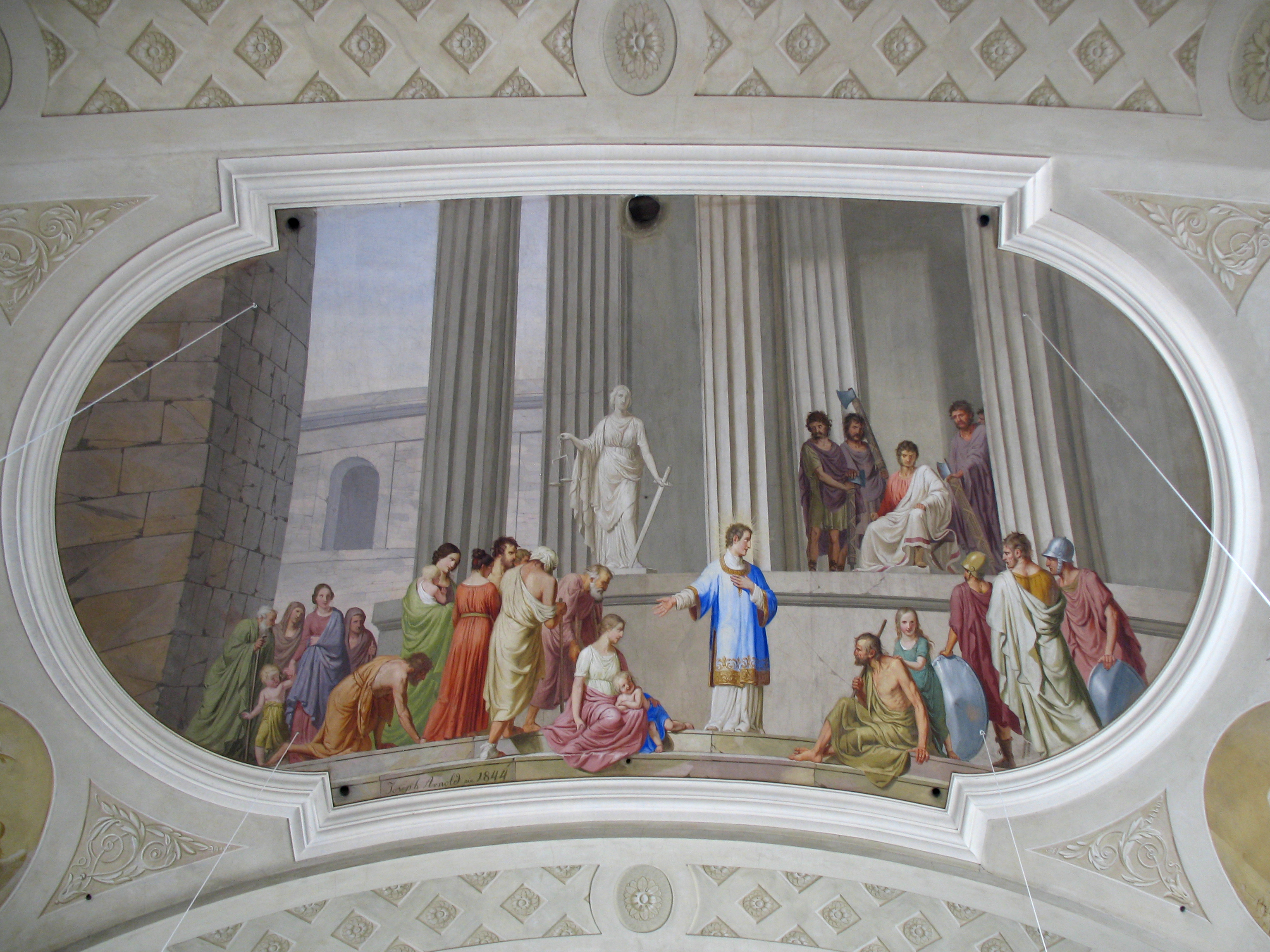 Saint Lawrence with the poorlabel QS:Len,"Saint Lawrence with the poor" label QS:Lde," Sankt Laurentius und die Armen"